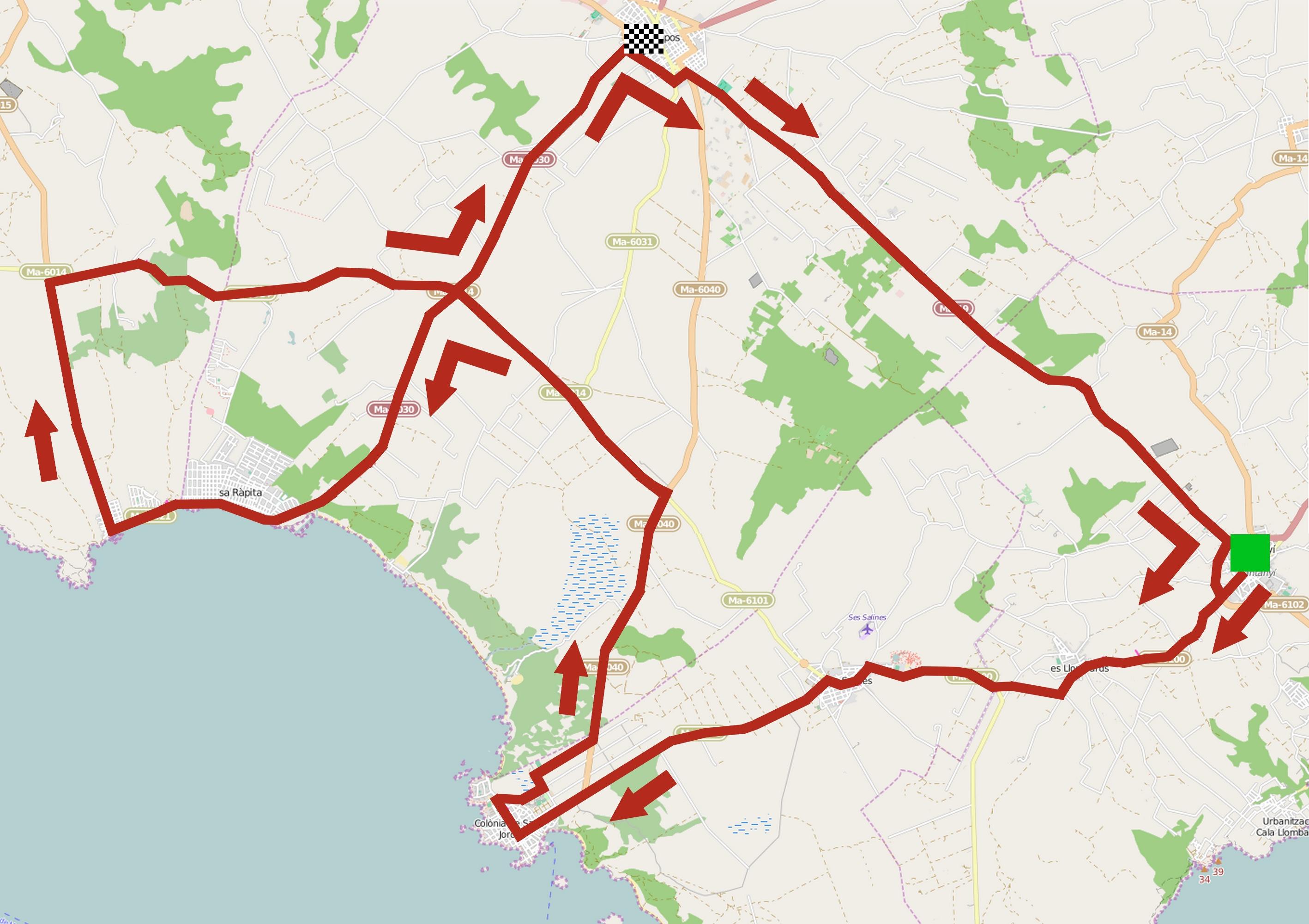 Parcours du Trofeo Ses Salines du Challenge de Majorque 2015. This map may be incomplete, and may contain errors. Don't rely solely on it for navigation.